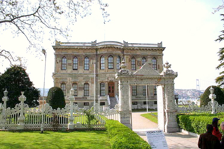 Istanbul, Turkey